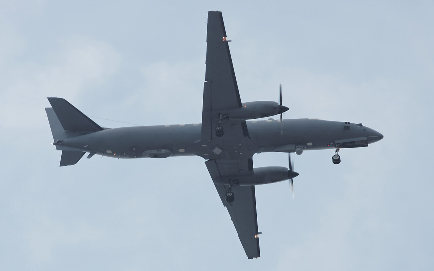 Credit goes to a contact of mine (Stephen Kerstiens) for the unintended ID, I had no idea what this was until he uploaded some shots of his own. Haha. This is one of eleven USAF RC-26B aircraft used in counterdrug surveillance. Unfortunately not the best shot as I was shooting into the sun, but you can see all the surveillance goodies on the belly.